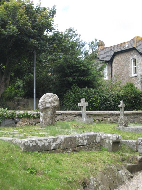 Ancient cross in the grounds of Madron church